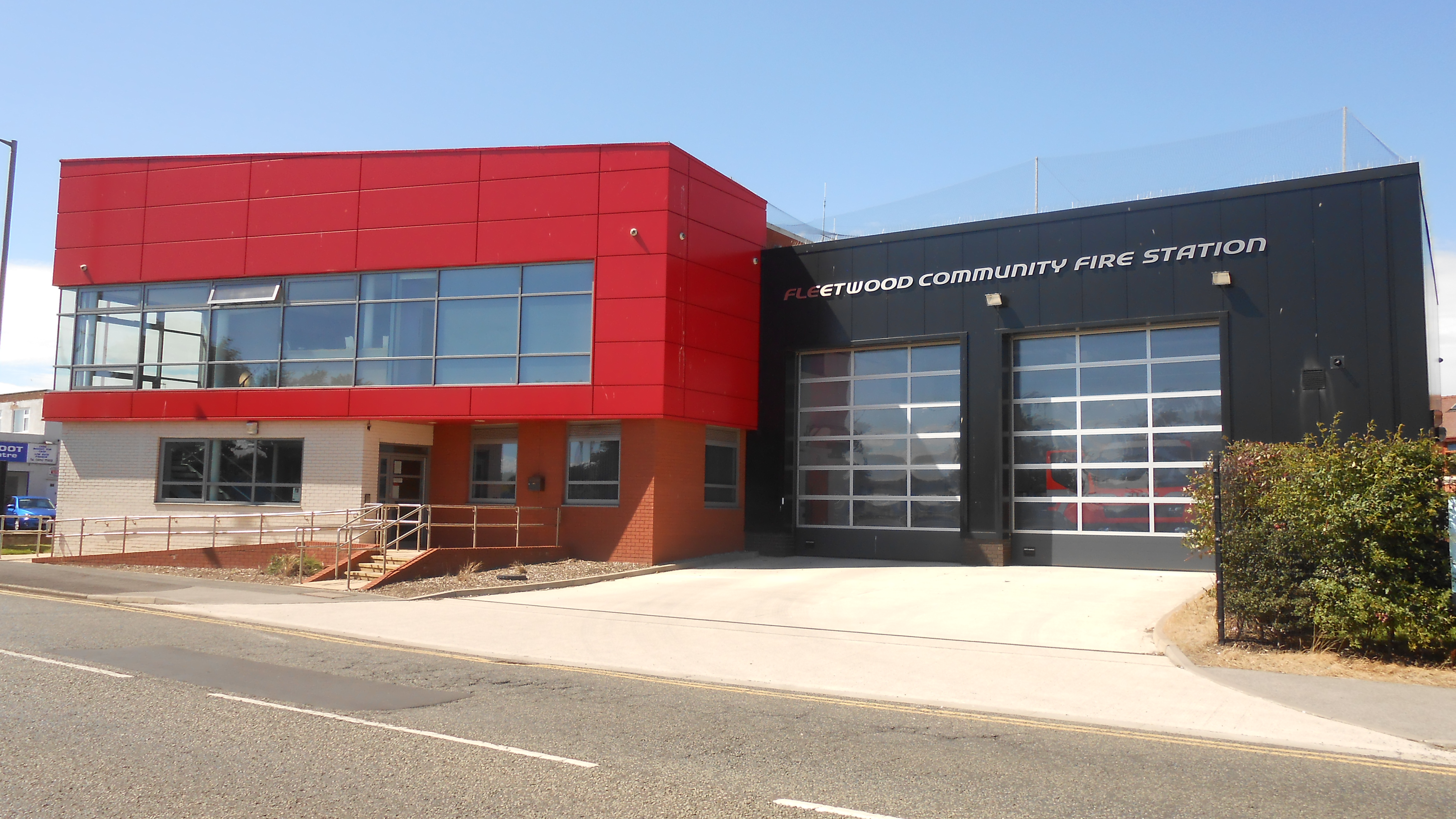 The new fire station in Fleetwood.